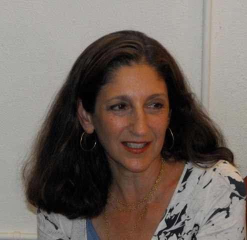 Photo of Carol Moldaw. Picture Credit: Bruce Holsapple